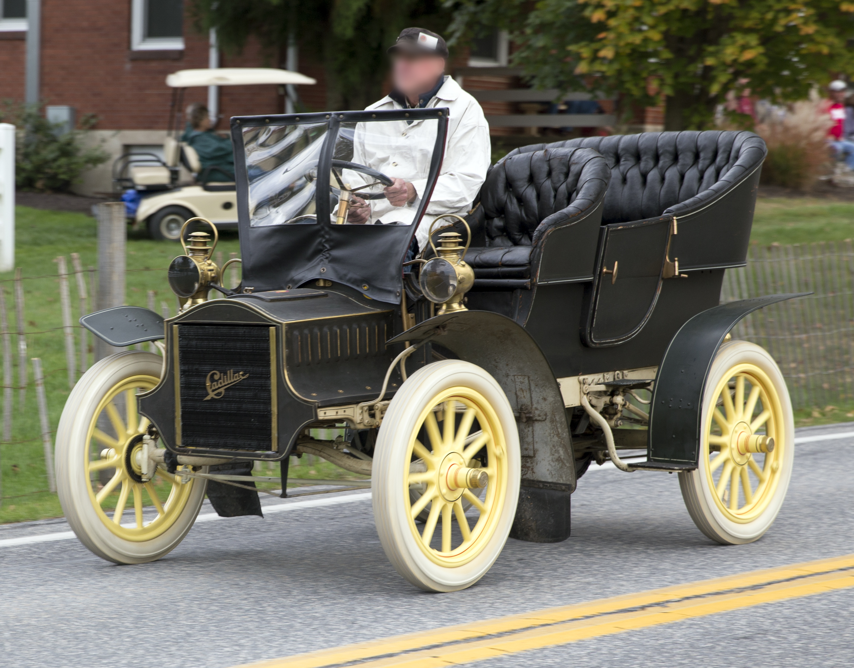 Unrestored 1905 Cadillac Model F Touring leaving Hershey 2019.